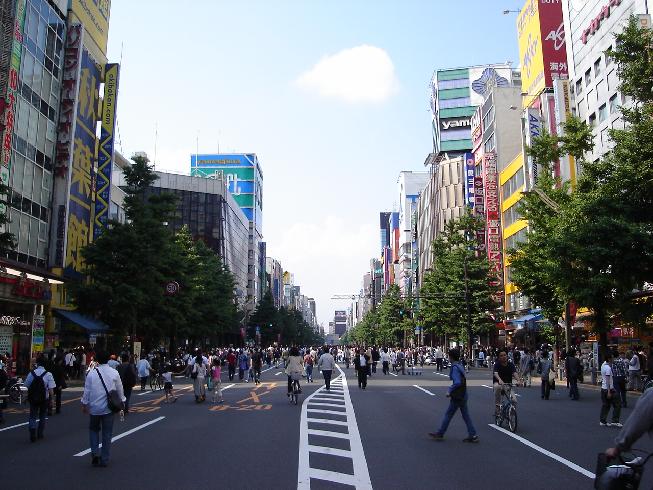 Akihabara, the electronics district, is one part of Tokyo where they close the streets on weekends so people can walk around. Governor Ryokichi Minobe started the practice in the 70's.